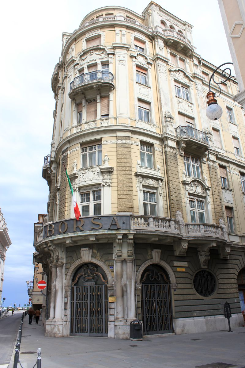 Palazzo Dreher in Trieste.